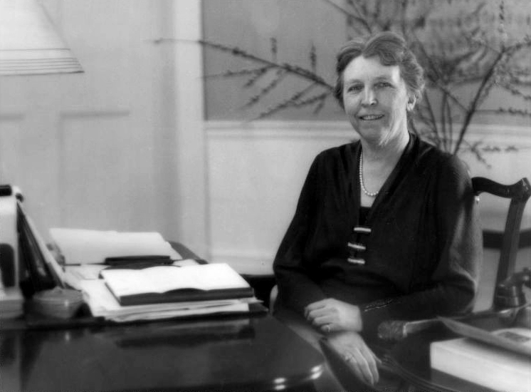 misc/via